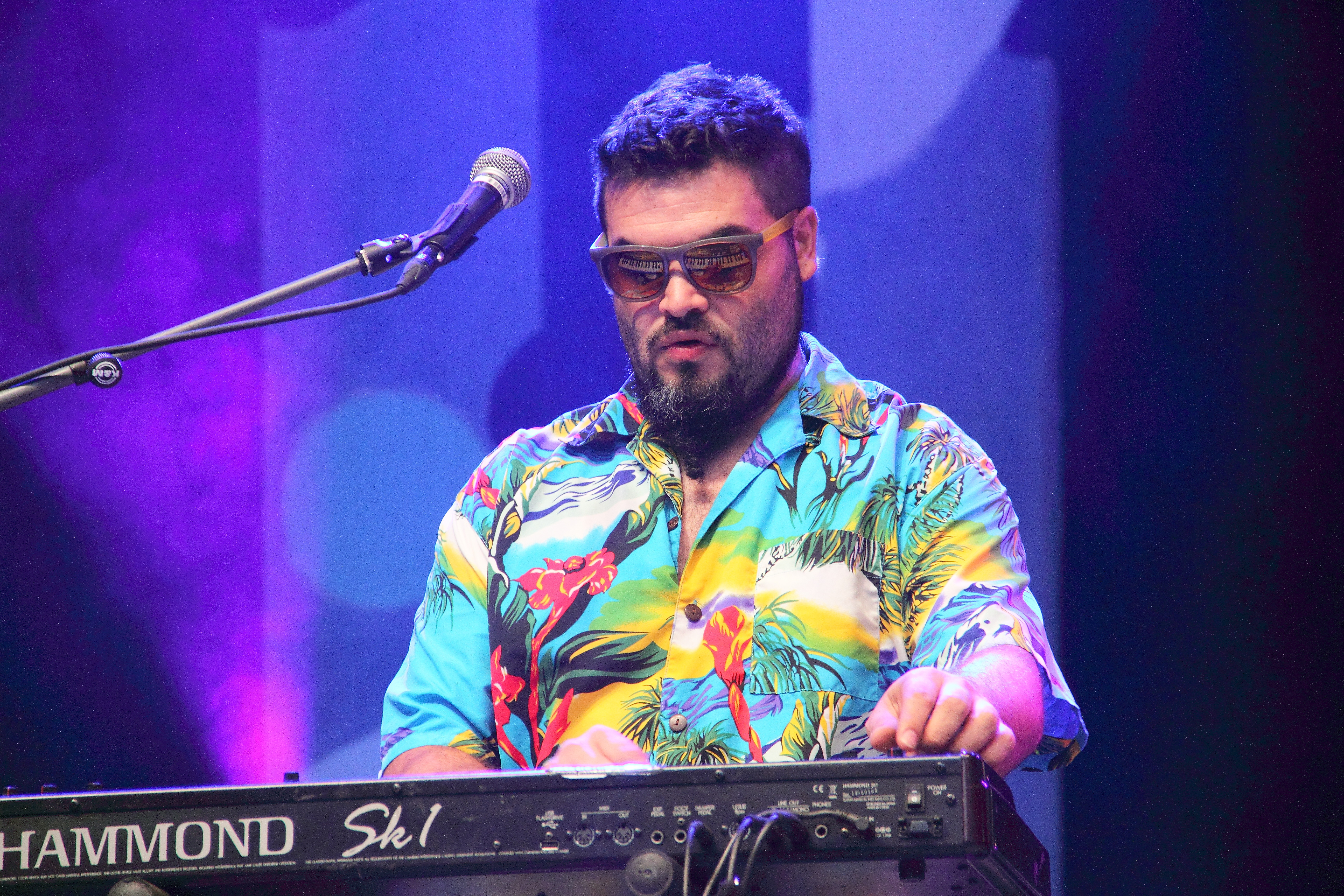 Chico Trujillo at Rudolstadt-Festival 2018.